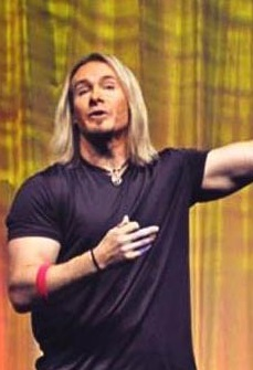 This is a photo of Erik Wahl. This is a cropped version of the photo. For the original photo, please drop me a message.